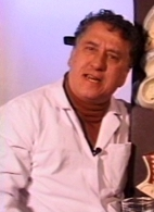 Picture of André Cartier